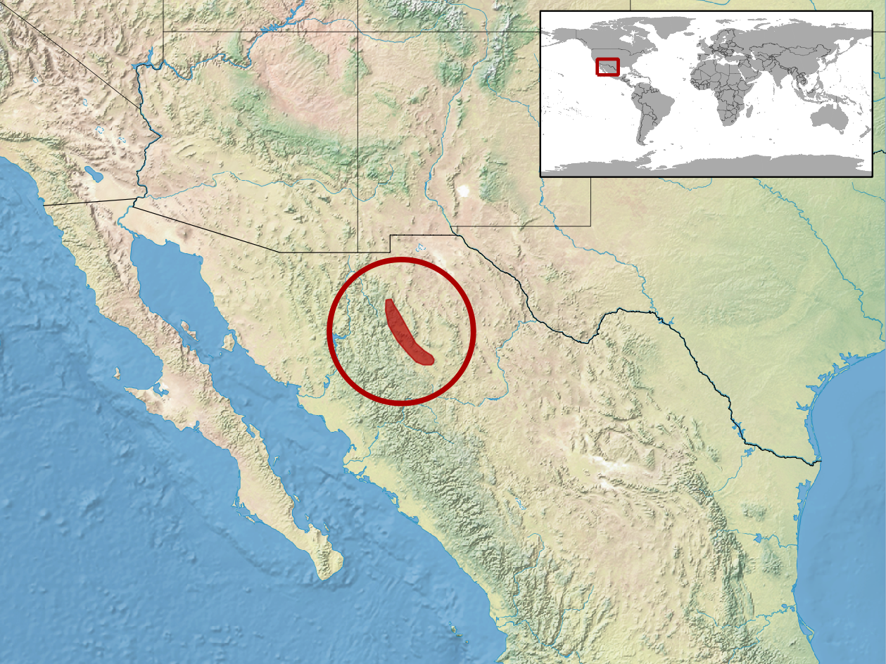 geographic distribution of Barisia levicollis (Native: Mexico)